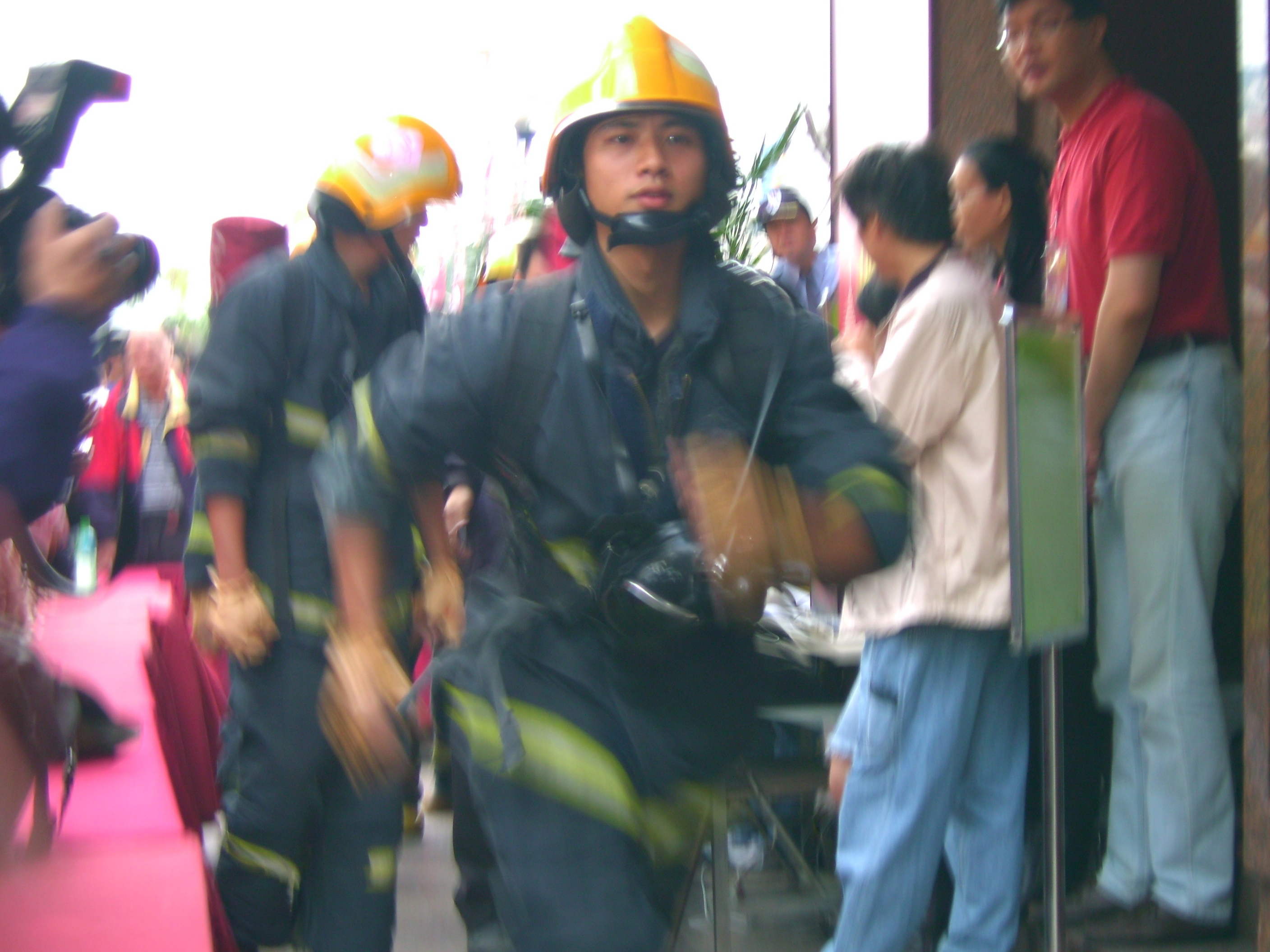 Firefighters participated in the 22nd SKL Run Up with their firefighting tools.